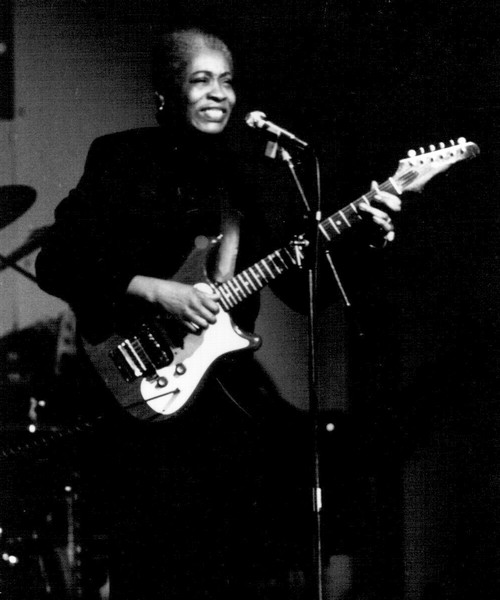 American Texas blues and soul blues singer, guitarist, and songwriter Jeanne CARROLL, in Paris, France